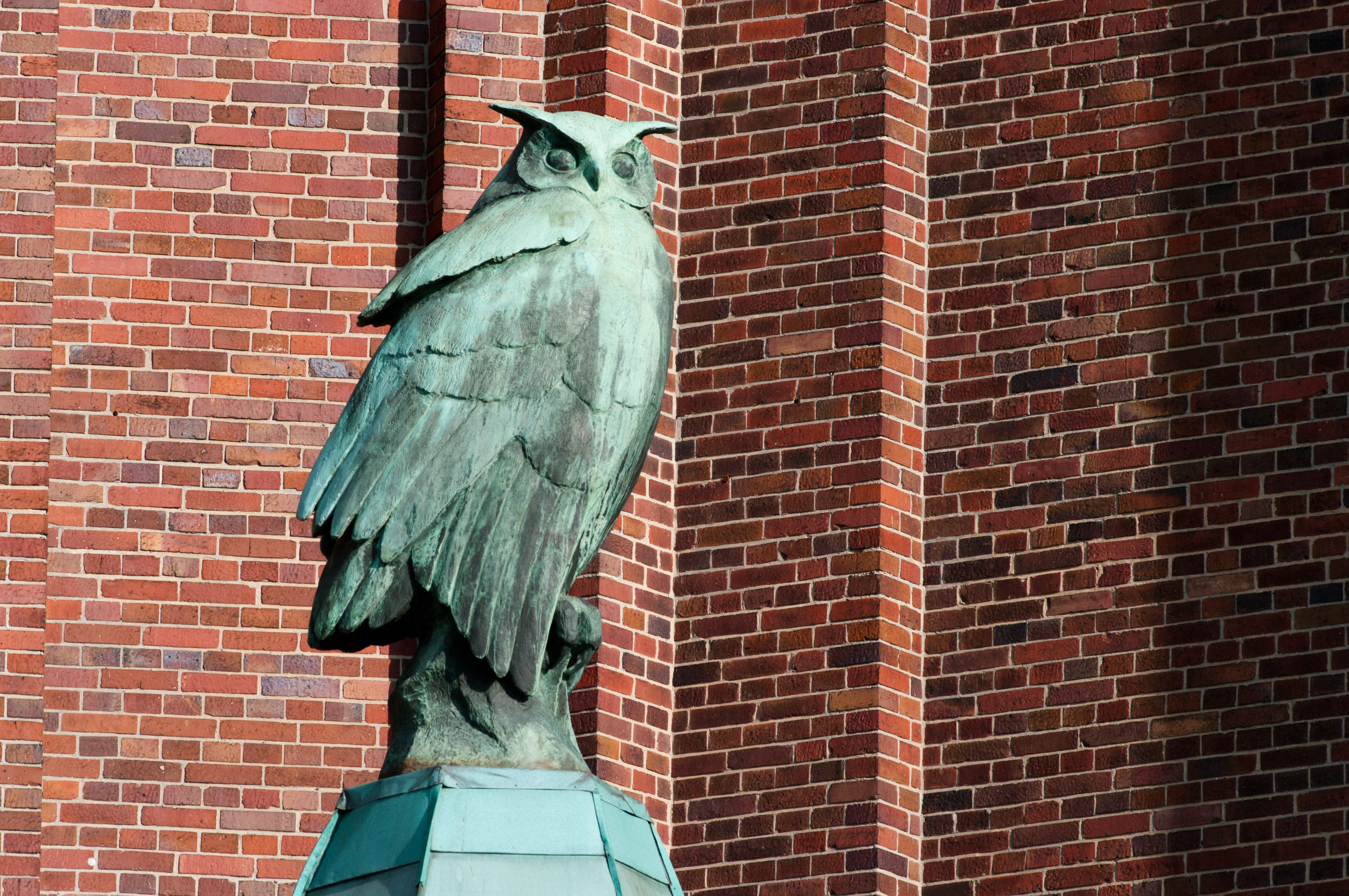 Detail of the Ullsteinhaus in Berlin-Tempelhof